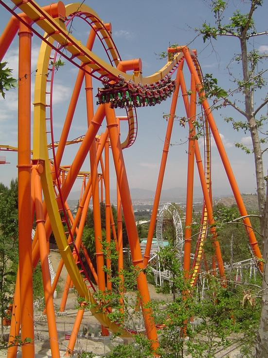 Tatsu roller coaster's 124-foot-tall inverted pretzel loop.